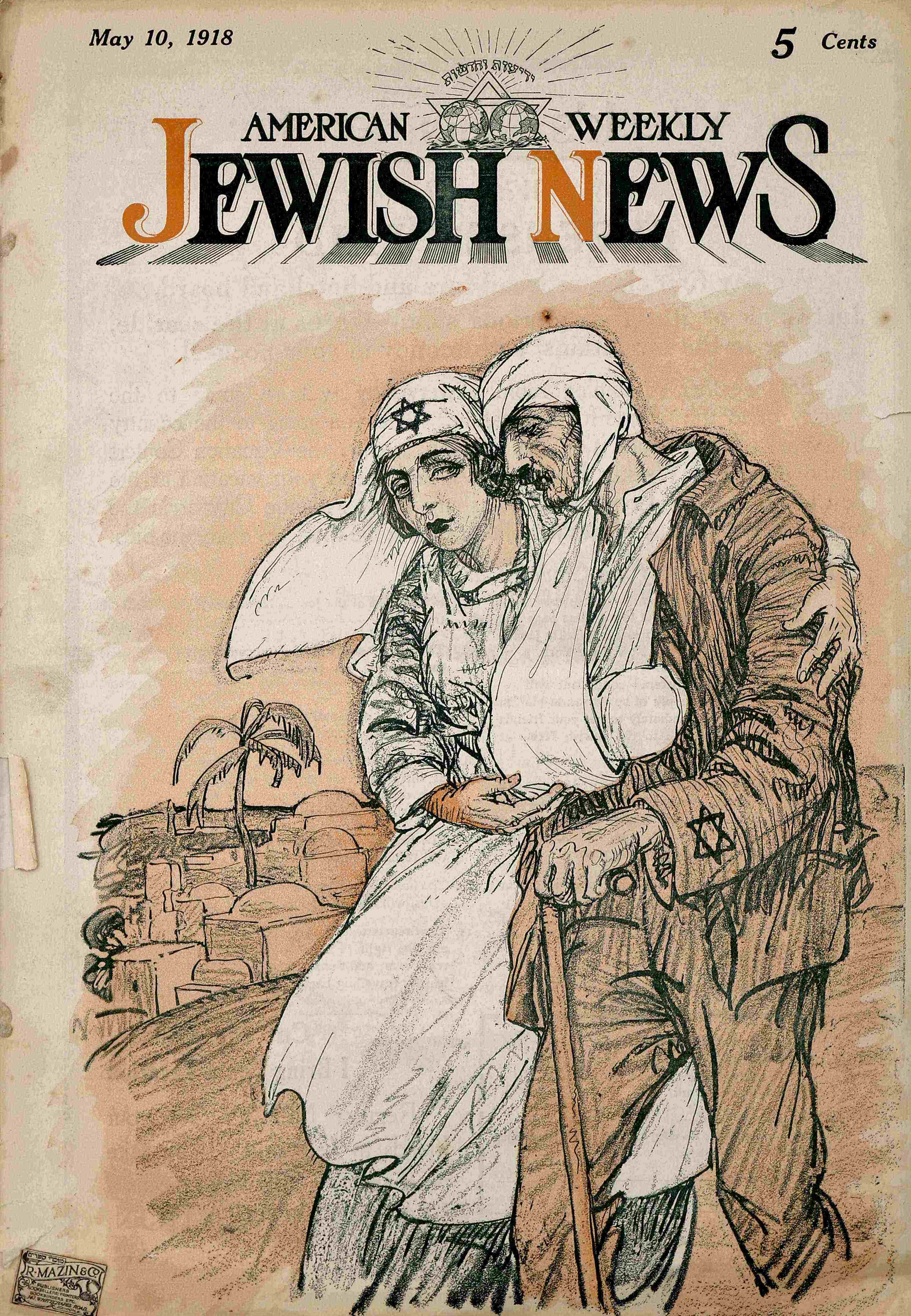 Issue of the newspaper American Weekly Jewish News. [New York], May 10, 1918. On the front cover of the issue appears an illustration in color of a nurse with a wounded Jew in Palestine.